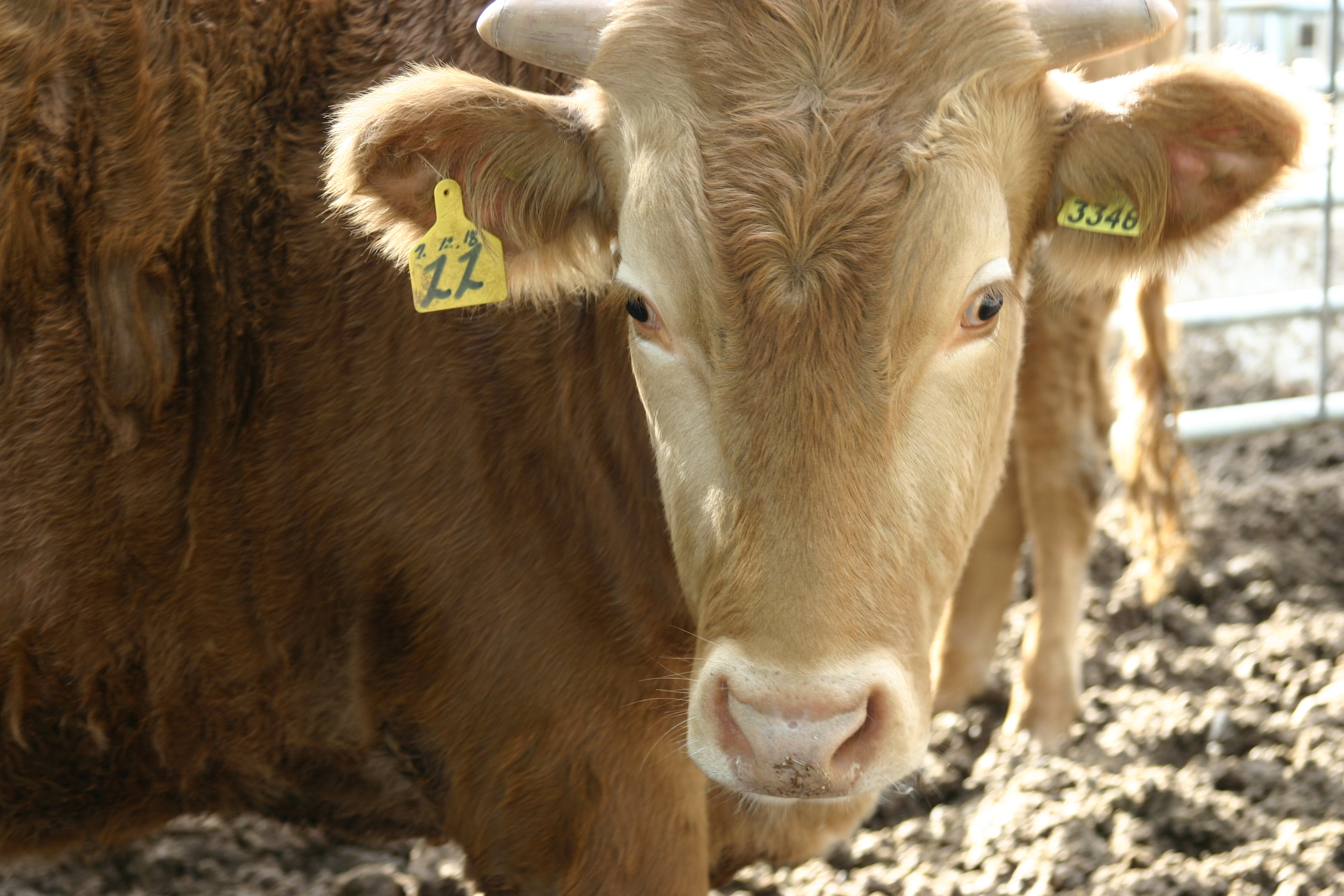 Hanu (Korean native cattle)